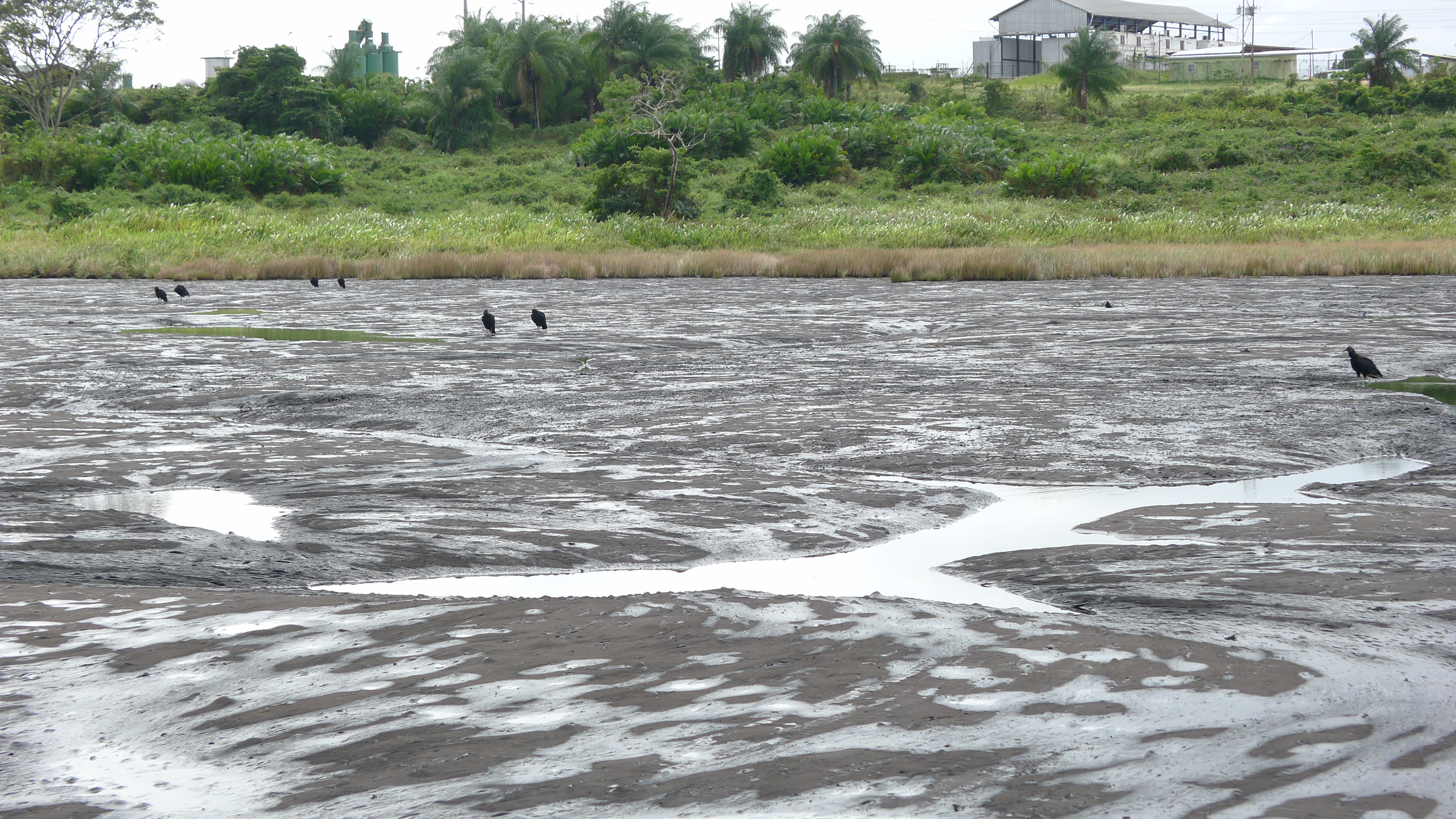 Pitch Lake near La Brea on the Island of Trinidad; view with birds.